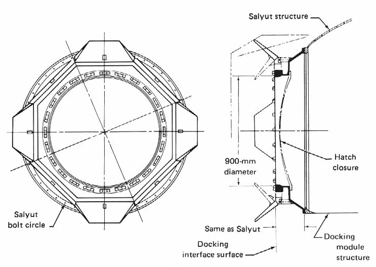 NASA proposal for a four-guide docking mechanism is shown to the Soviets during the November 1971 meeting in Moscow. Note the 900-millimeter-diameter tunnel.